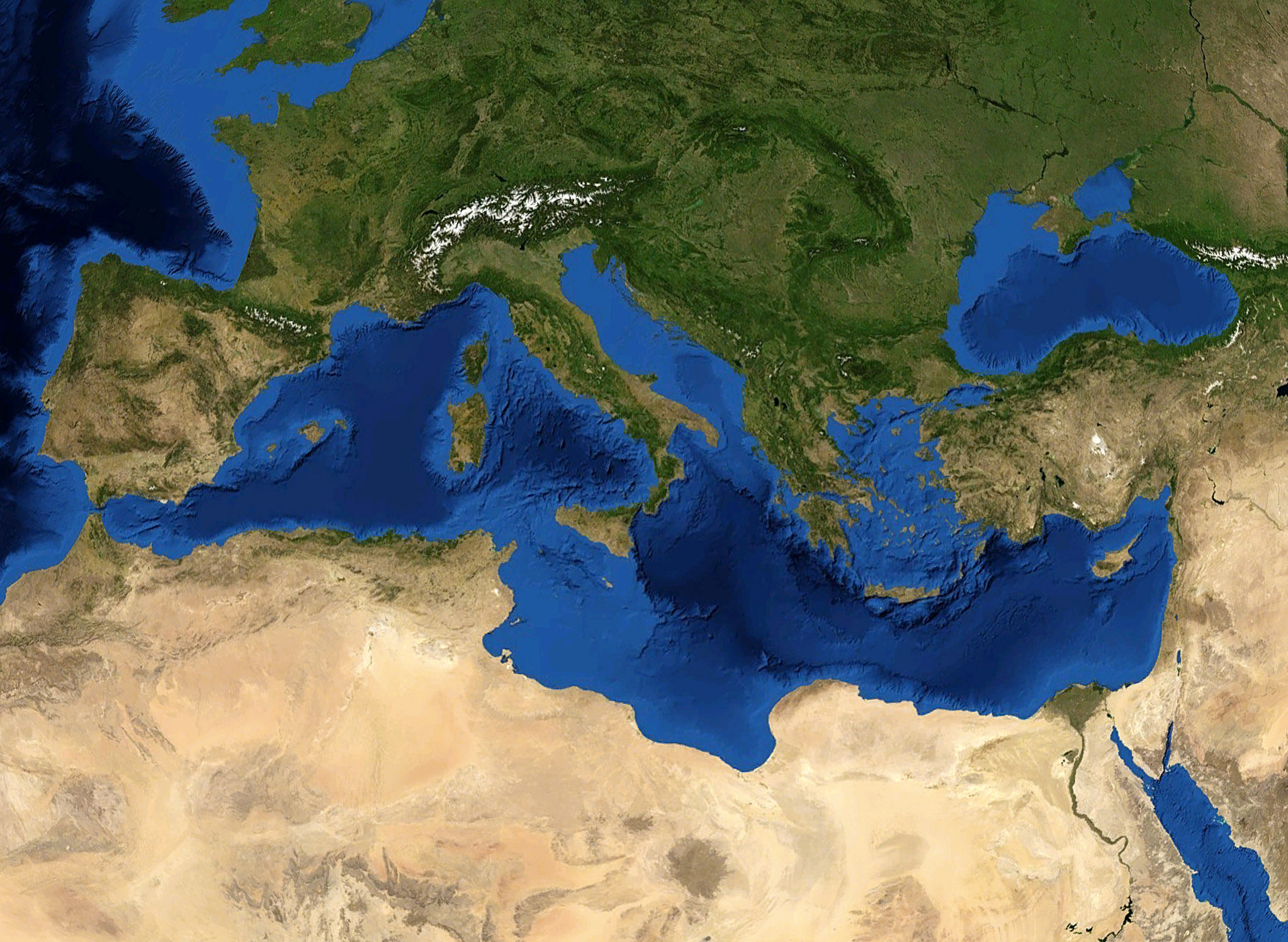 Satellite caption of the Mediterranean Sea.